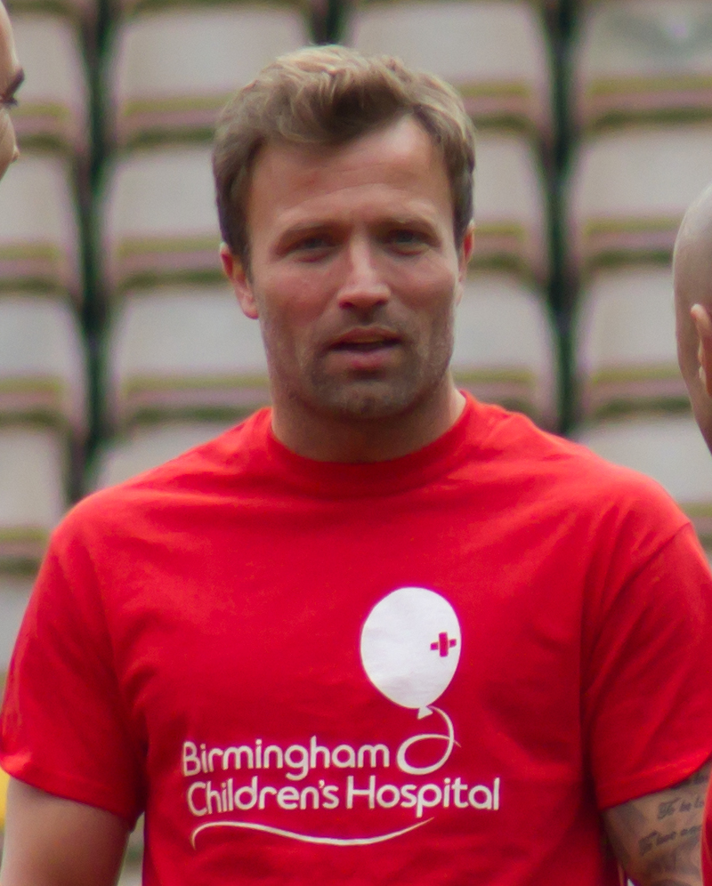 Michael Gray during Jody Craddock testimonial